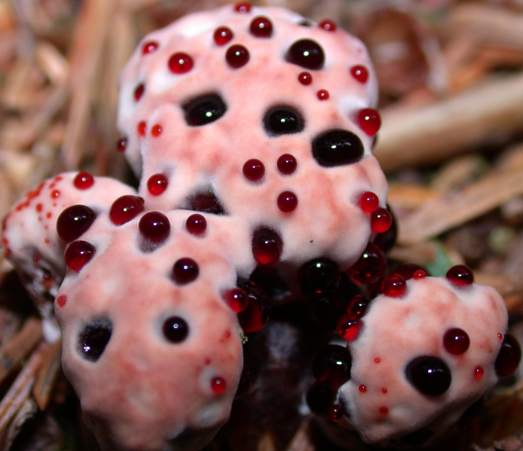 fungi